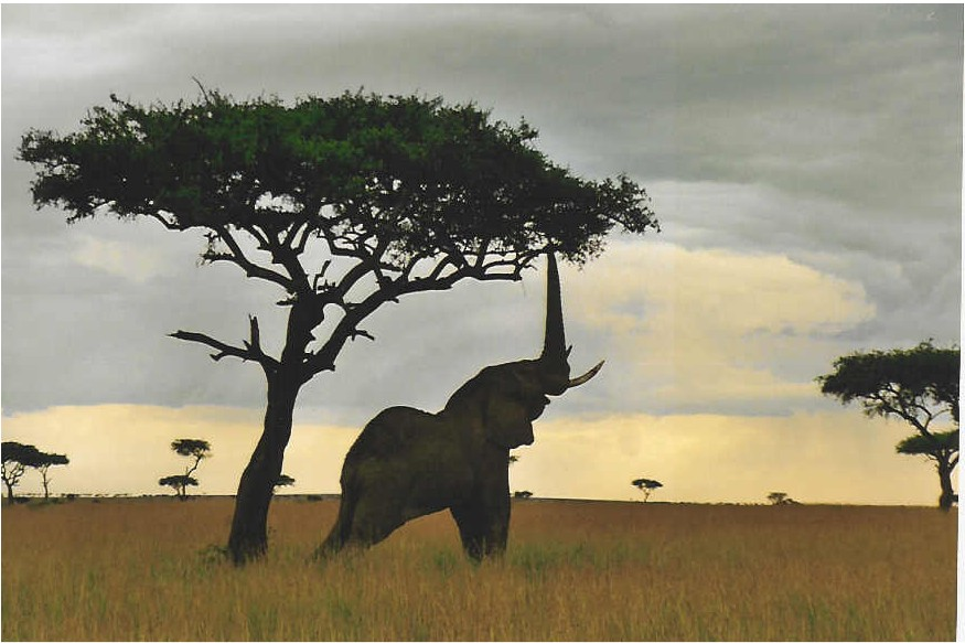 Original caption: African Elephant trying to reach leaves, in Kenya.